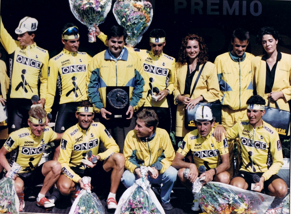 Vuelta España 1991